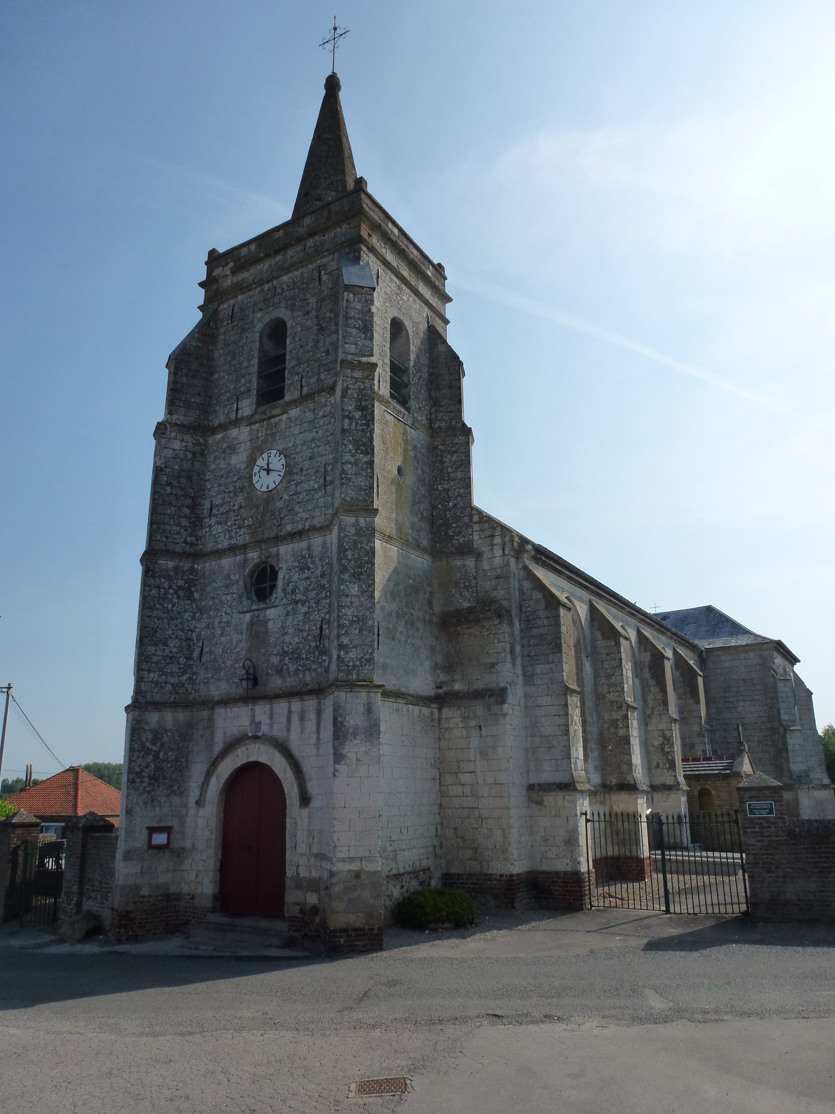 Mametz (Pas-de-Calais, Fr) église Saint-Vaast, tour